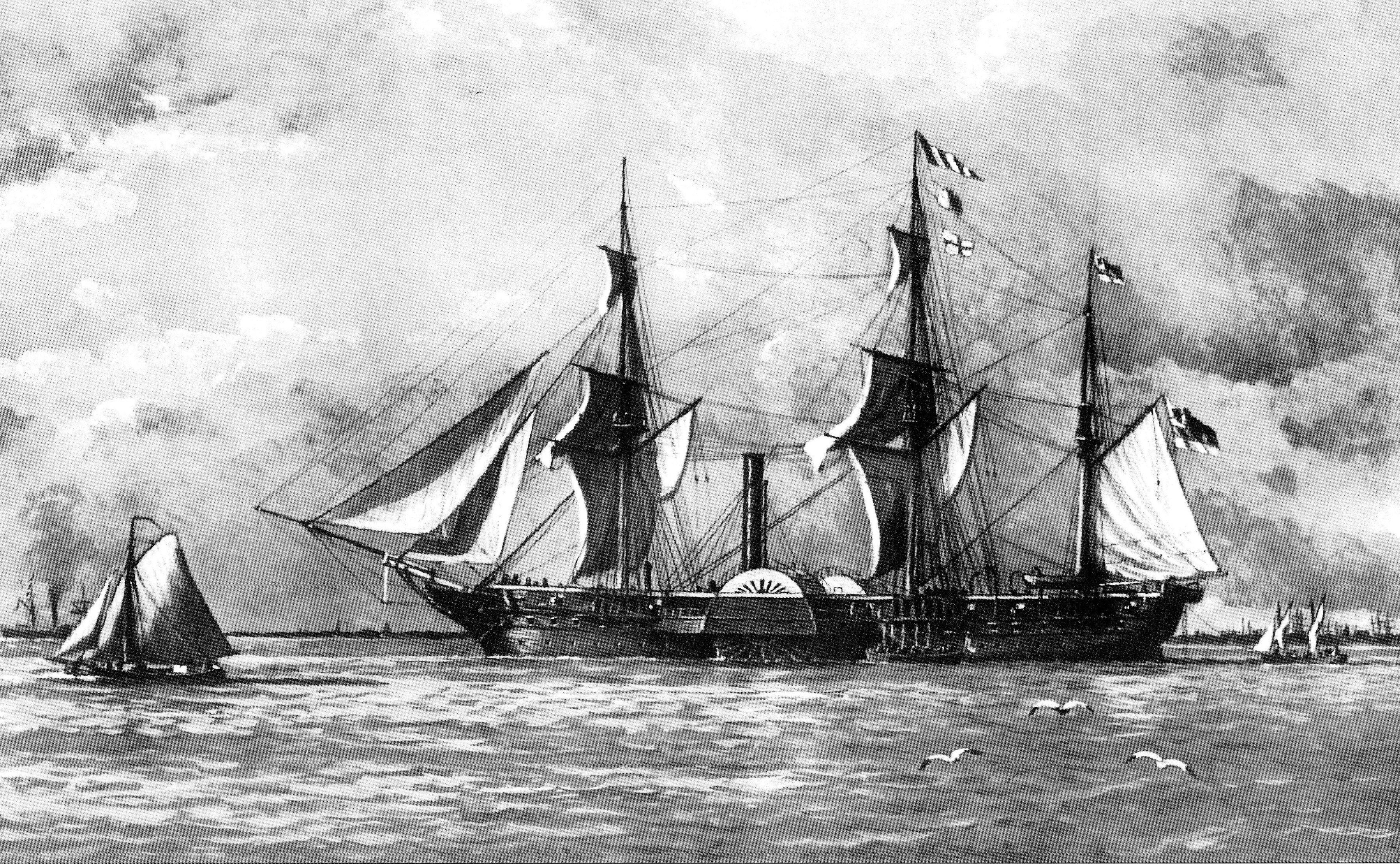 Side wheeler frigate HANSA of the German Reichsflotte approximately 1850. Painting by naval artist Lüder Arenhold (1854-1915) round about 1905